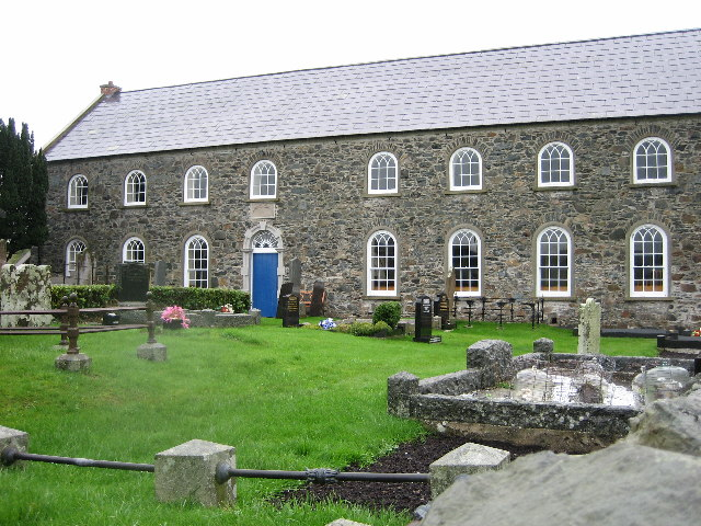 Rademon (First Kilmore) Non-subscribing Presbyterian Church. The Congregation was founded in 1713. This building dates from 1787: it has recently undergone complete refurbishment with aid from the Lottery Fund.